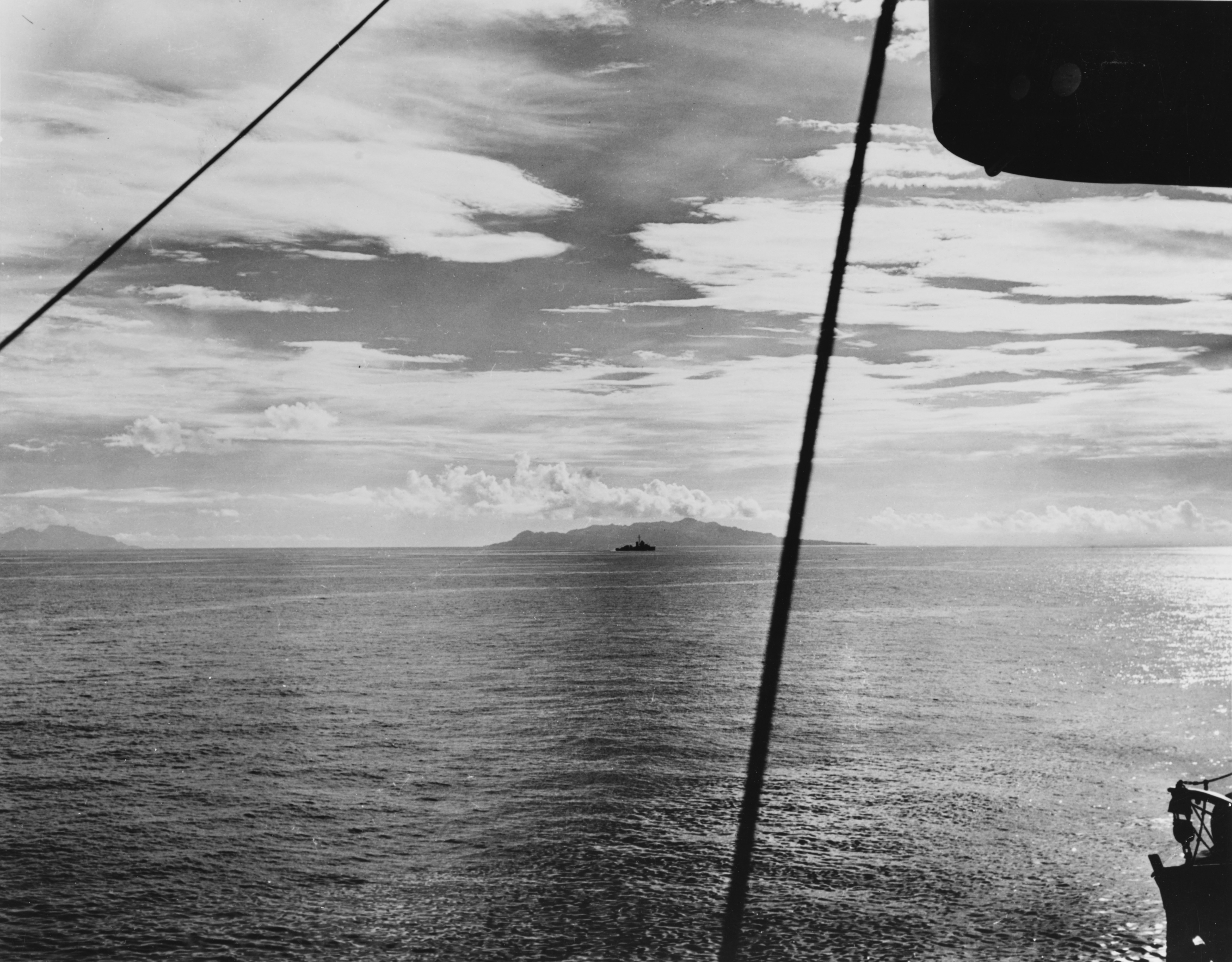 A U.S. destroyer steams up what later became known as Ironbottom Sound, the body of water between Guadalcanal and Tulagi, during landings on both islands, 7 August 1942. Savo Island is in the center distance and Cape Esperance, on Guadalcanal, is at the left. Photographed from USS San Juan (CL-54) from a location approximately due east from the northern tip of Savo Island.